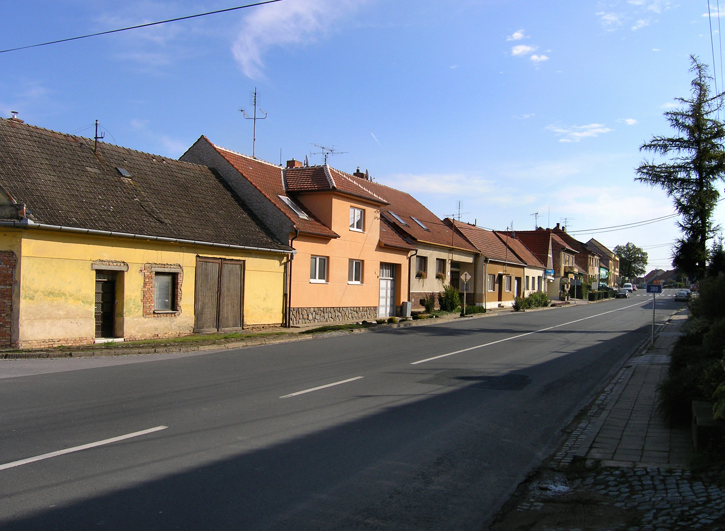 Main street in Krumvíř, Czech Republic